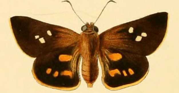 Plate: Cyclopides Cyclopides carmides. Fig. 1. Accepted as Malaza carmides (Hewitson, 1868).